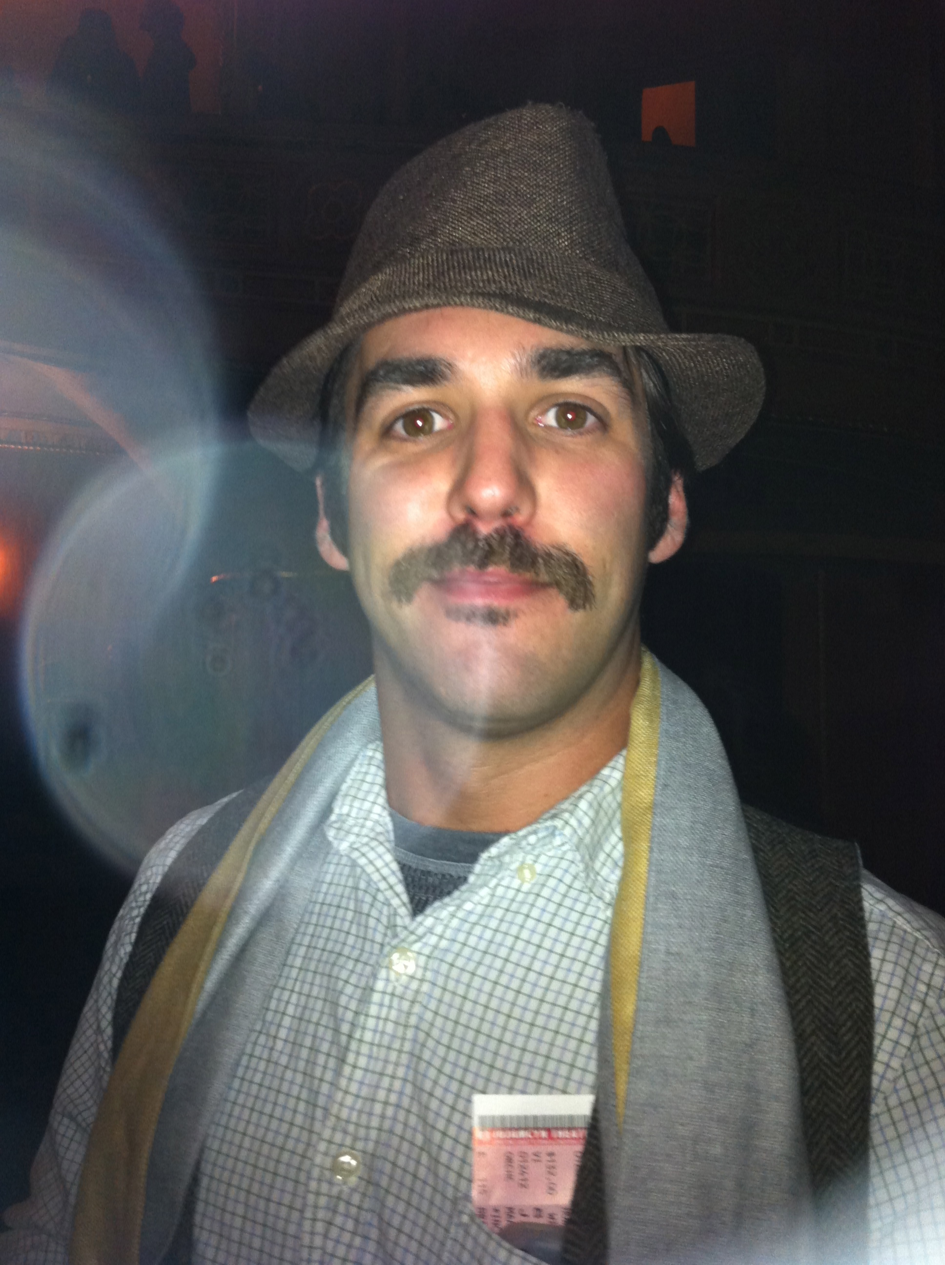 Photo of actor Jordan Bridges